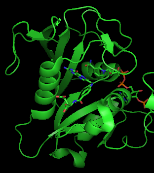 DHFR with dihydrofolate (left) and NADPH (right) bound. Notice the beta sheets and alpha helices